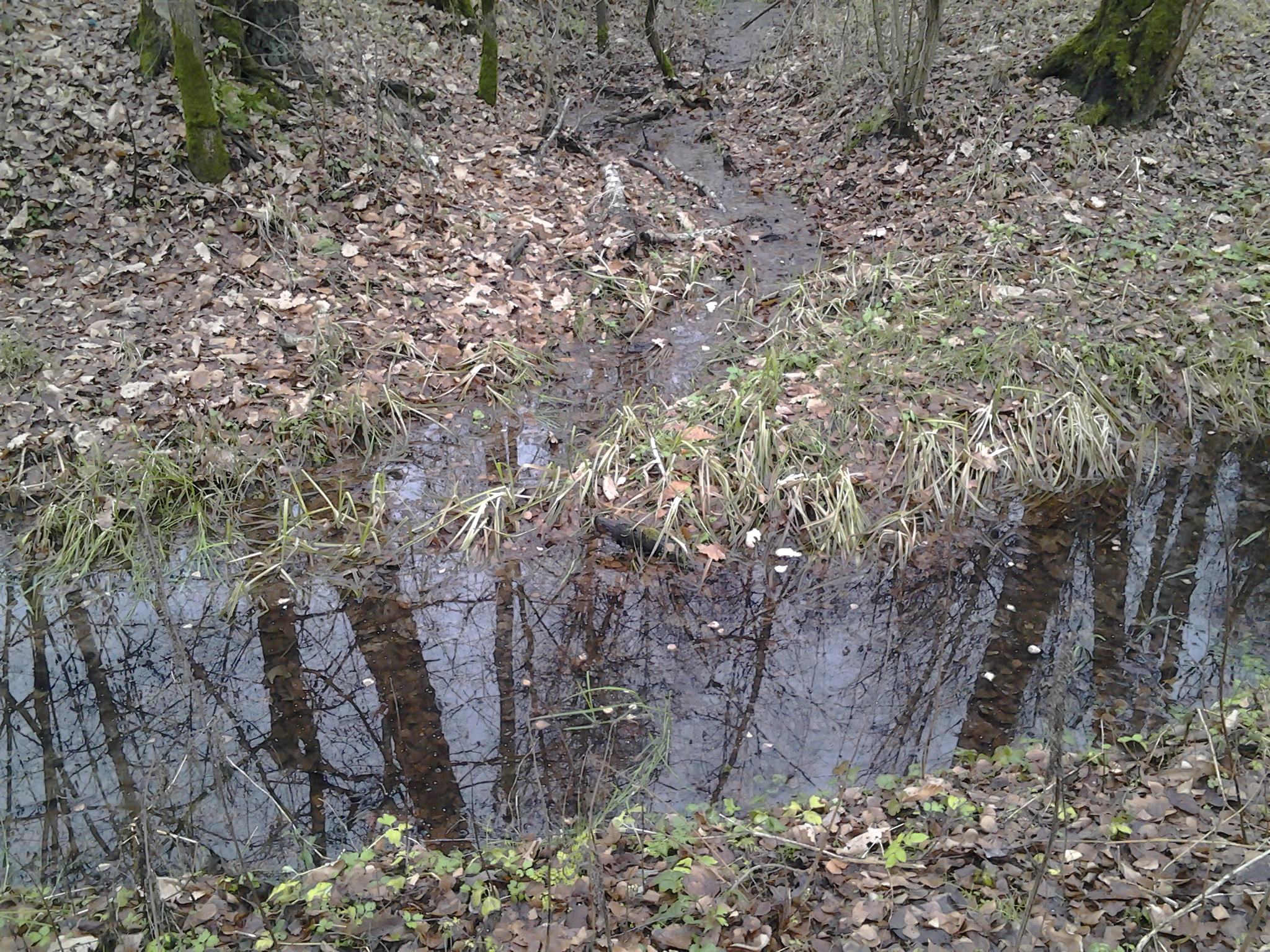 Los and Losyonok tributary